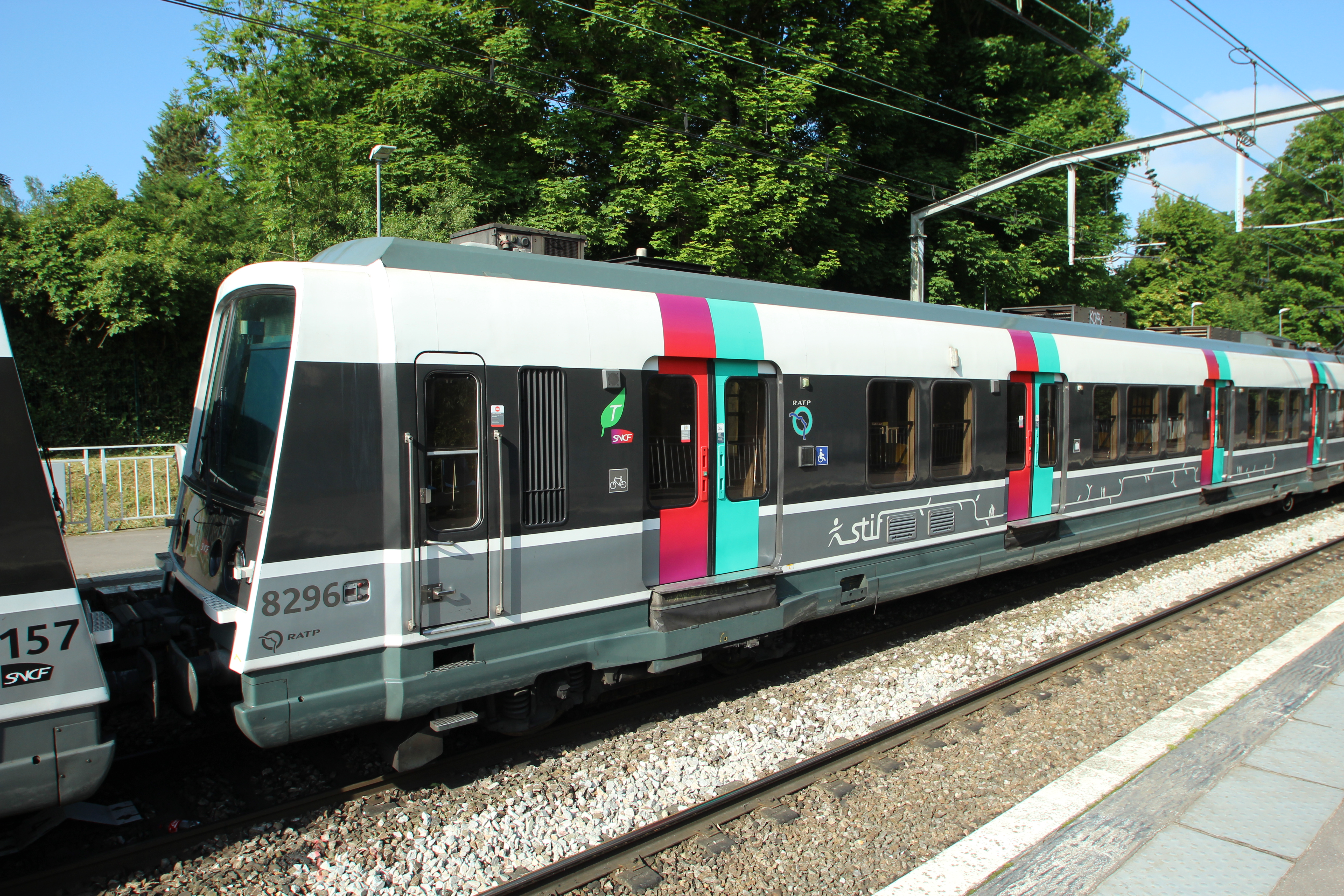 Courcelle-sur-Yvette train station in Gif-sur-Yvette, France.